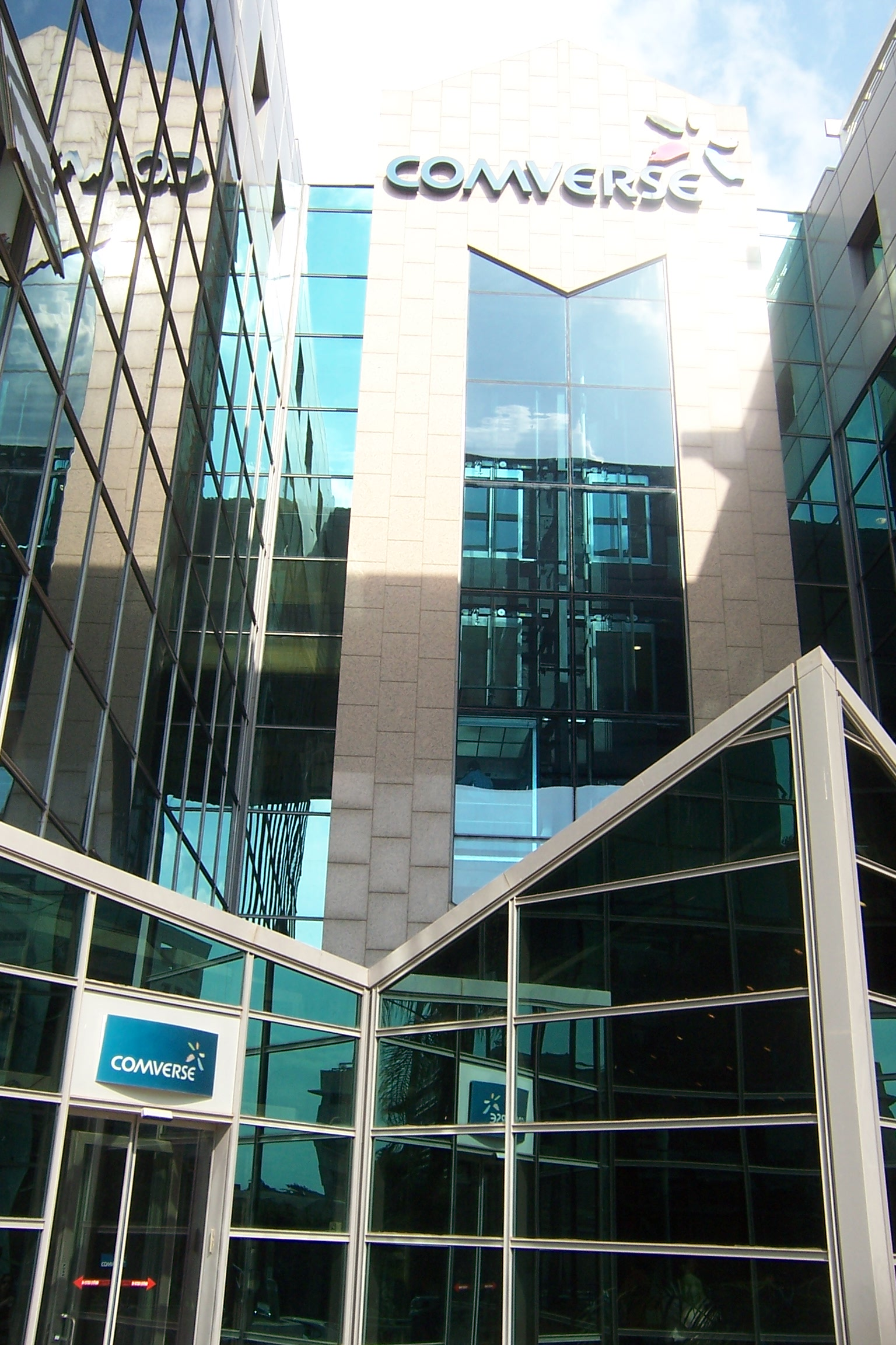 One of Comverse Technology's buildings on HaBarzel Street in Tel Aviv, Israel.